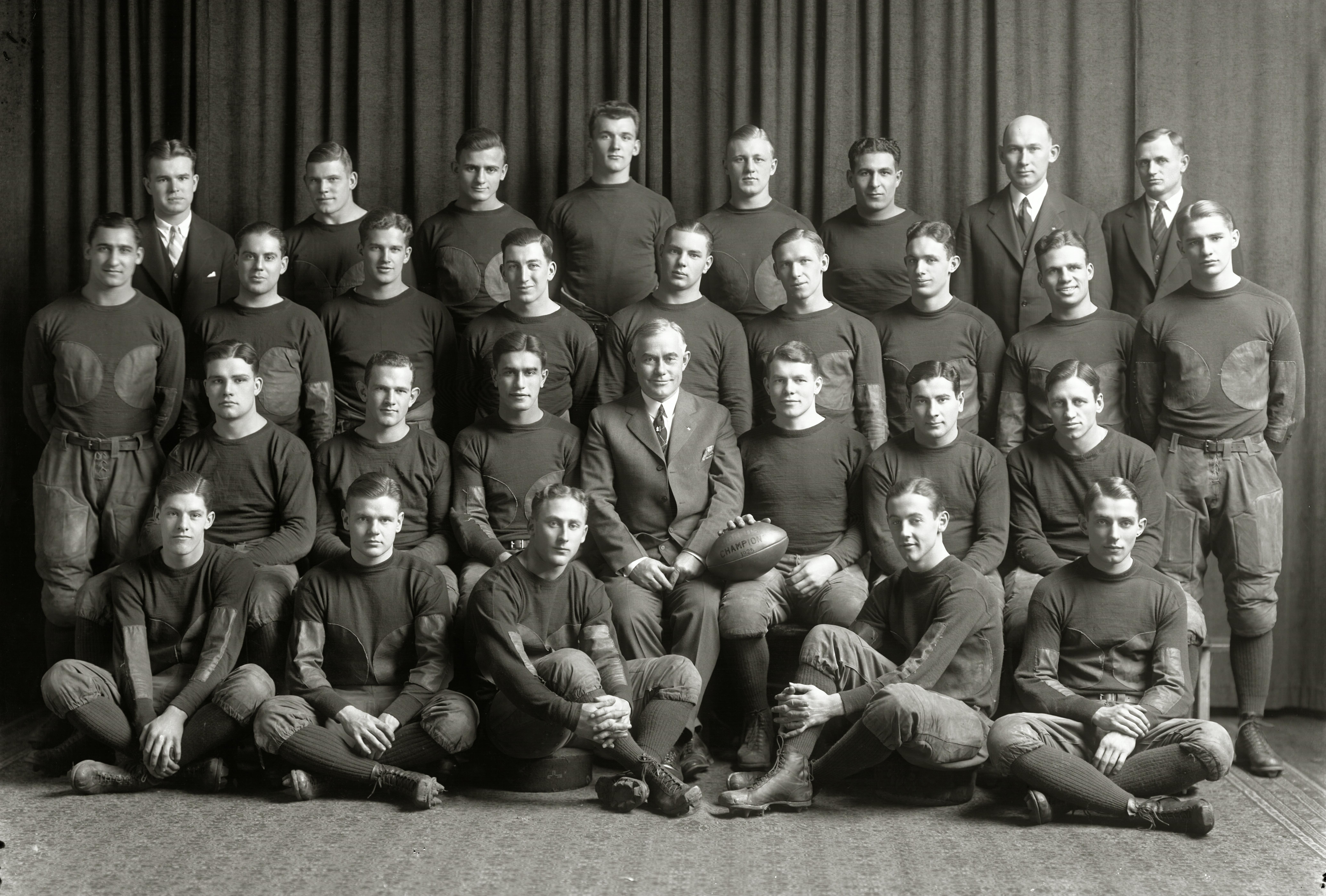 Photograph of 1925 Michigan Wolverines football team This work is in the public domain because it was published in the United States between 1925 and 1963 and although there may or may not have been a copyright notice, the copyright was not renewed. Unless its author has been dead for the required period, it is copyrighted in the countries or areas that do not apply the rule of the shorter term for US works, such as Canada (50 pma), Mainland China (50 pma, not Hong Kong or Macao), Germany (70 pma), Mexico (100 pma), Switzerland (70 pma), and other countries with individual treaties. See Commons:Hirtle chart for further explanation. This work is in the public domain in the United States because it was published in the United States between 1925 and 1977, inclusive, without a copyright notice. For further explanation, see Commons:Hirtle chart as well as a detailed definition of "publication" for public art. Note that it may still be copyrighted in jurisdictions that do not apply the rule of the shorter term for US works (depending on the date of the author's death), such as Canada (50 p.m.a.), Mainland China (50 p.m.a., not Hong Kong or Macao), Germany (70 p.m.a.), Mexico (100 p.m.a.), Switzerland (70 p.m.a.), and other countries with individual treaties.